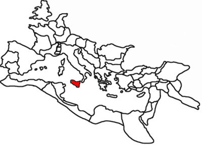 Roman Empire, Sicilia province highlited